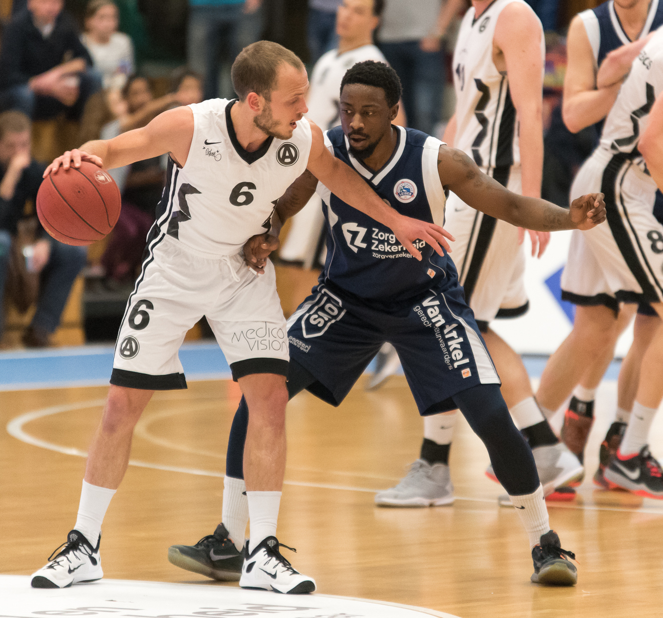 Aron Royé (left) being guarded by Cashmere Wright, in a DBL game between ZZ Leiden and Apollo Amsterdam.